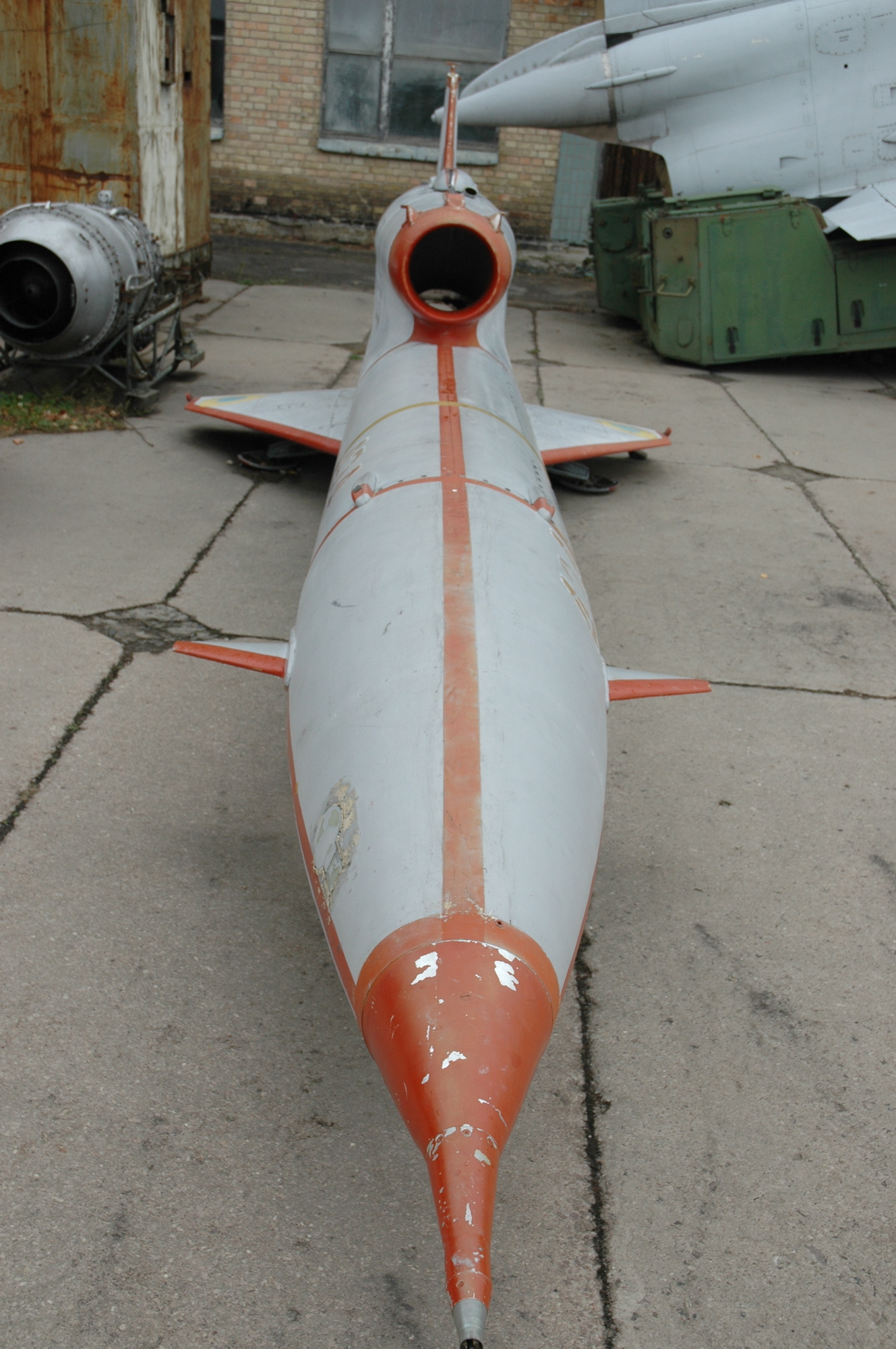 Tu-143 Soviet reconnaissance drone (Kyiv, Ukraine)